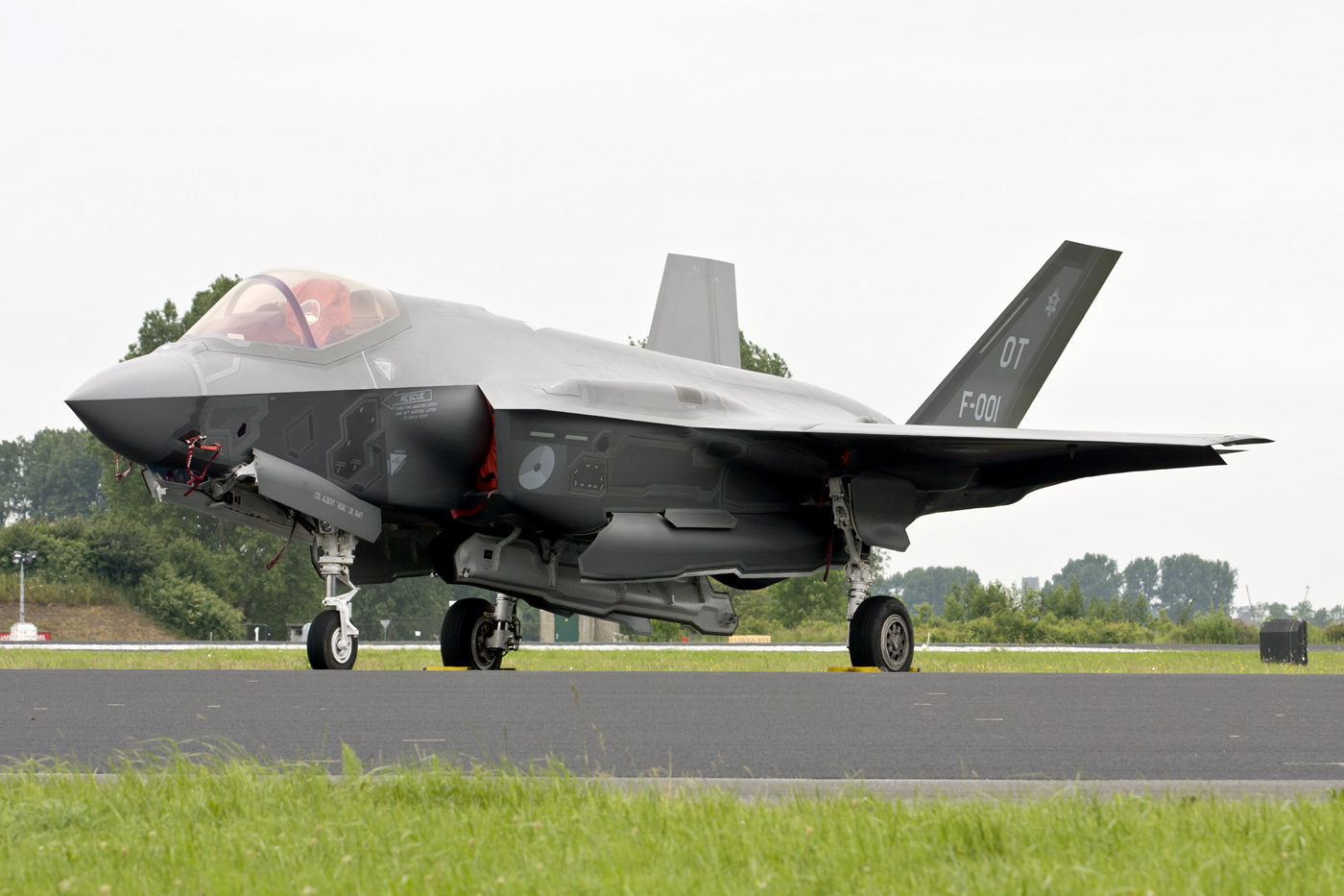 Leeuwarden Open Days, 11 June 2016. At the end of the day the light improved and better photos were possible. Both machines were parked in front of the public.